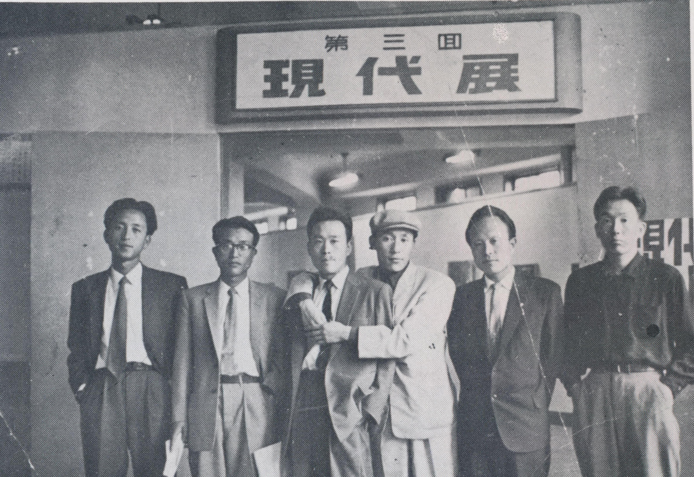 Park Seo-Bo (27 years old) with his arms around Kim Tschang-yeul poses at the 3rd Contemporary Exhibition held at Hwa-Shin Department Store Gallery in Seoul, South Korea in 1958. The group exhibition was a periodic one of Hyun-Dai Artists Association, whose full name was the Association of Korean Contemporary Artists, organized by Kim Tschang-yeul and other 11 young artists in 1957. Park Seo-Bo took part in the Association and its group exhibition from the second in 1957 to the 6th in 1960.